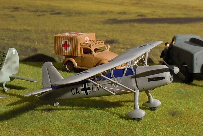 Model of an Arado Ar 76. More pics of the same are on